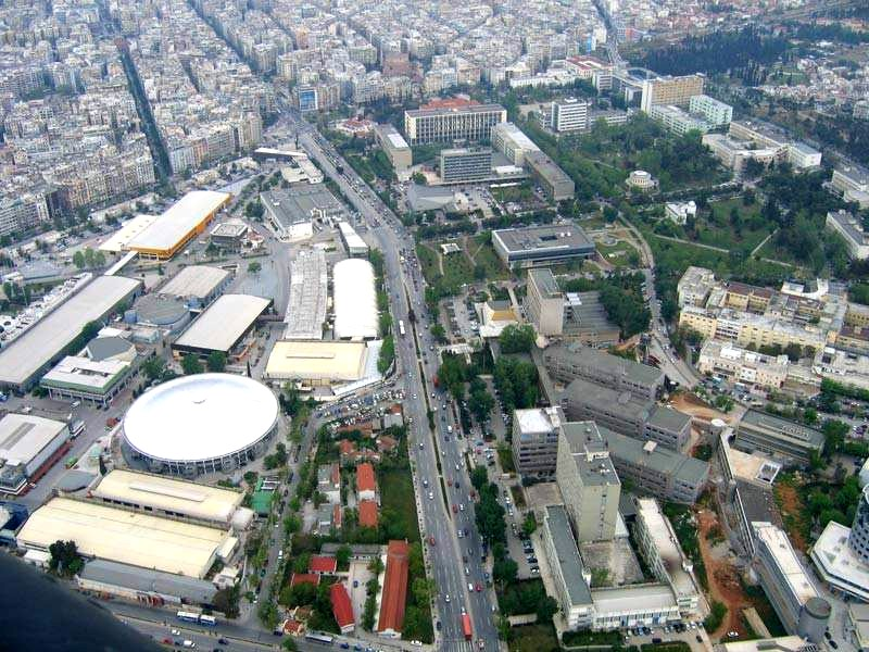 Aerial view of Central Thessaloniki, Greece. On the left, the International Fair area and on the right the Aristotle University's campus and AHEPA Hospital.